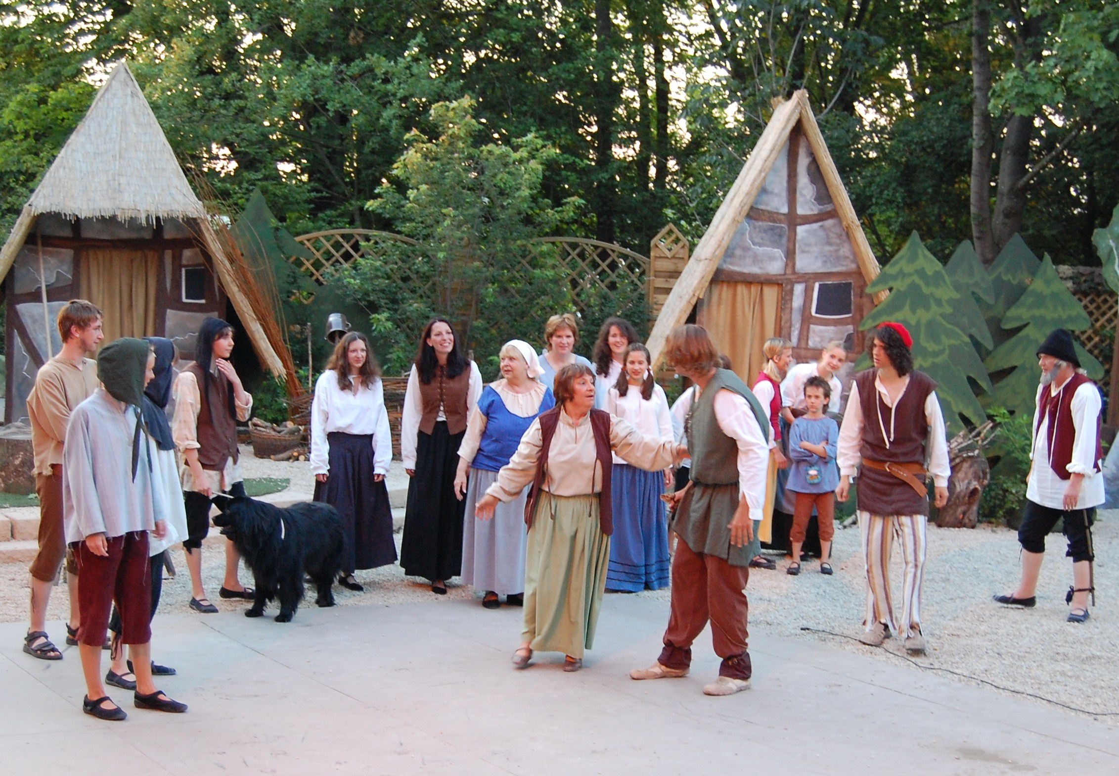 Scene from the play Robin Hood at the Naturtheater Grötzingen in 2007.